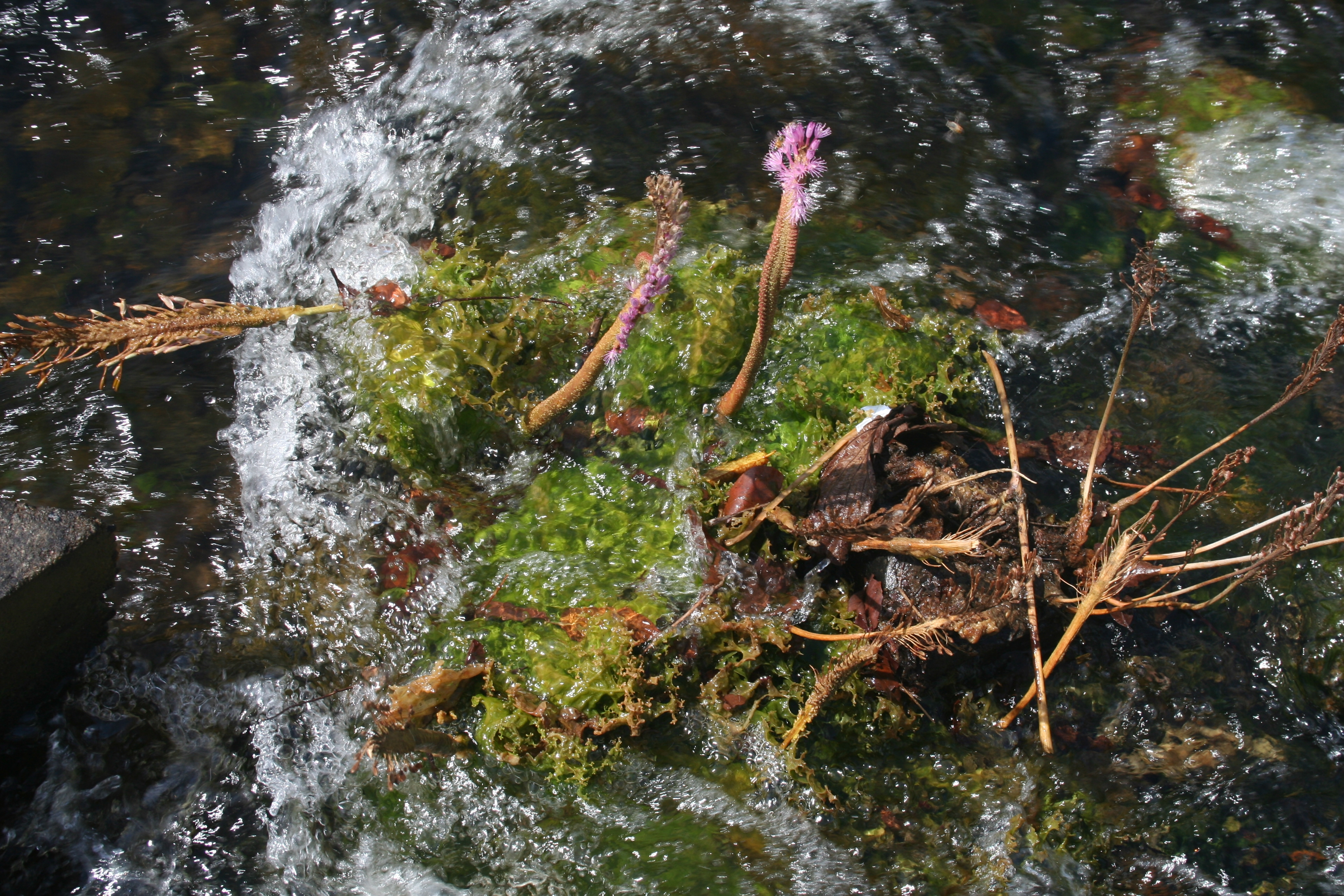 Leaves, flowers and fuits of Mourera fluviatilis (Podostemaceae family). Picture taken in the Llovizna falls park, in Puerto Ordaz, Venezuela.